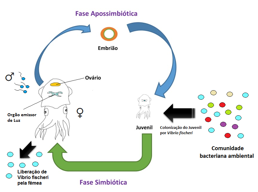 Horizontal Transmission of Vibrio Fischeri in Euprimna scolopes